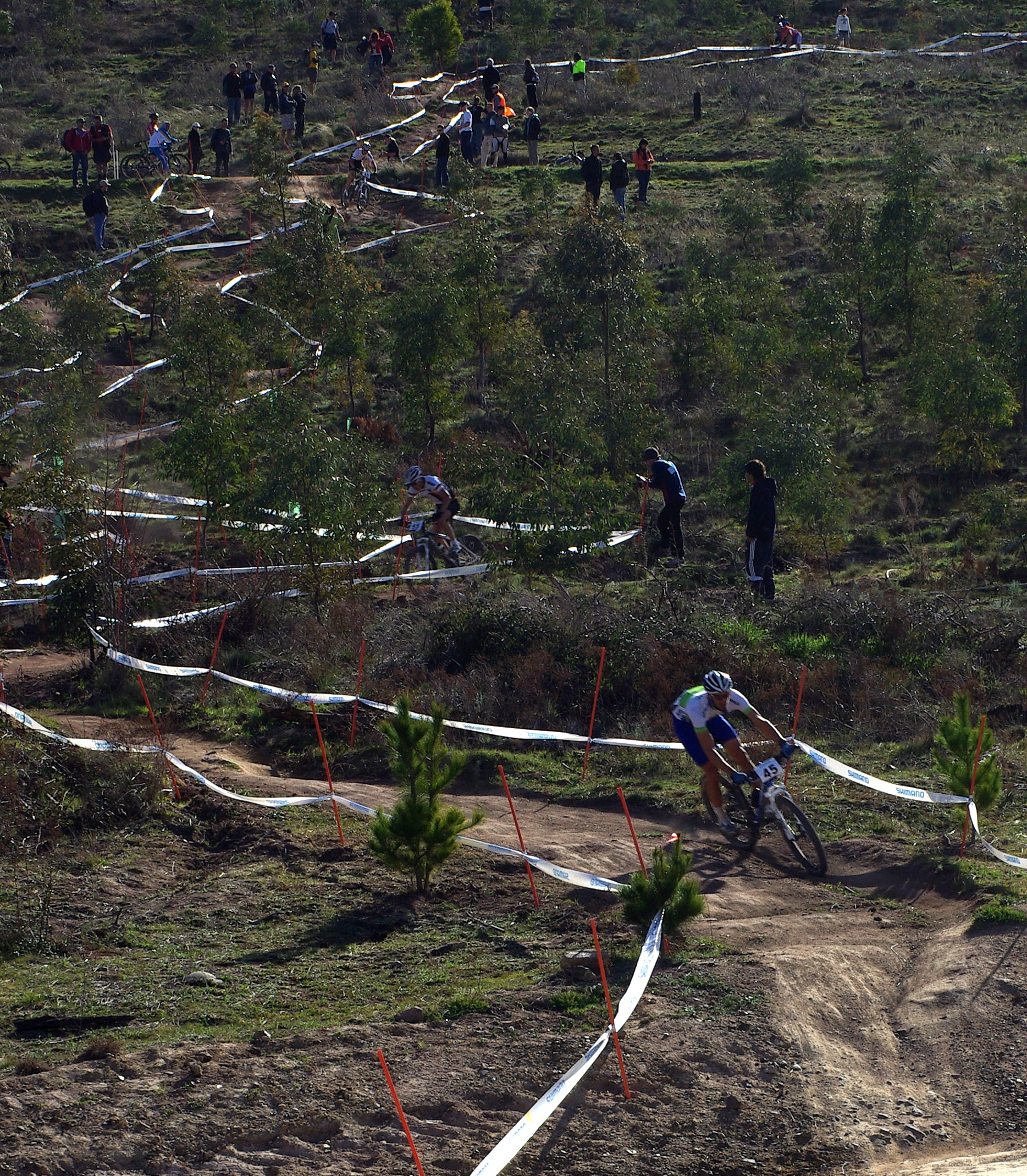 Cross-country mountain biking: Competitors in the under 23 men's division at the 2009 UCI Mountain Bike and Trials World Championships held at Mount Stromlo, near Canberra, Australia. Slovenian Luka Mezgec leads out of a downhill section of the course.